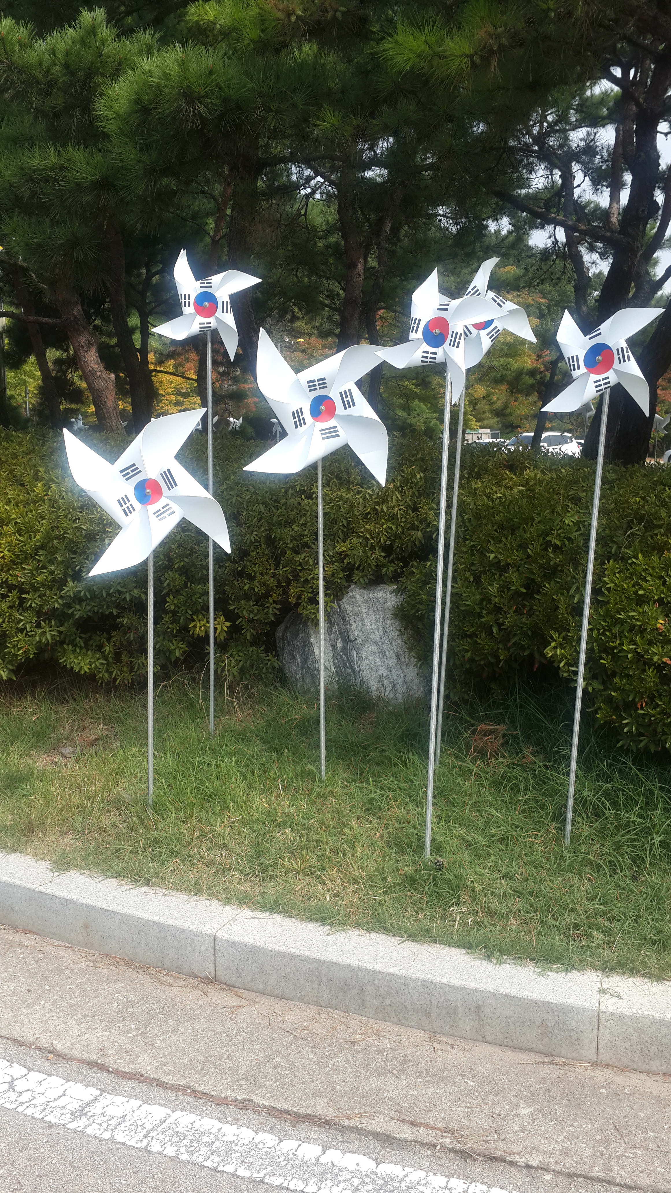 Pinwheels in Ansan Arts Center